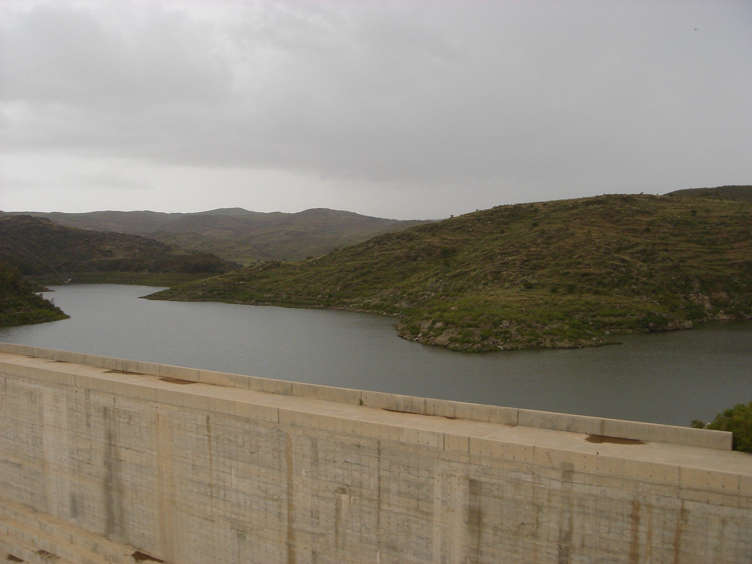 Eritrea. Toker Dam Zoba Maakel